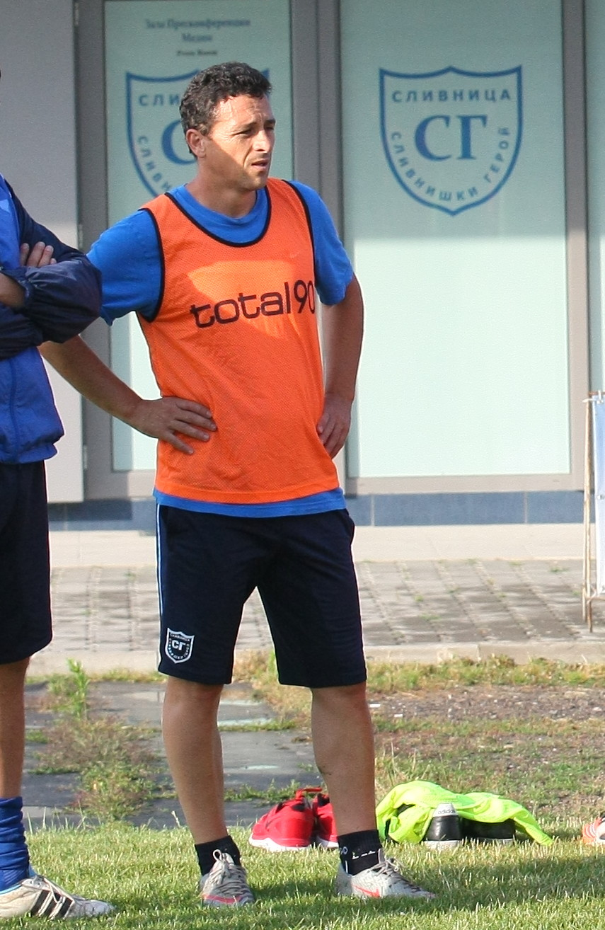 Dimitar Mutafov - bulgarian football coach.